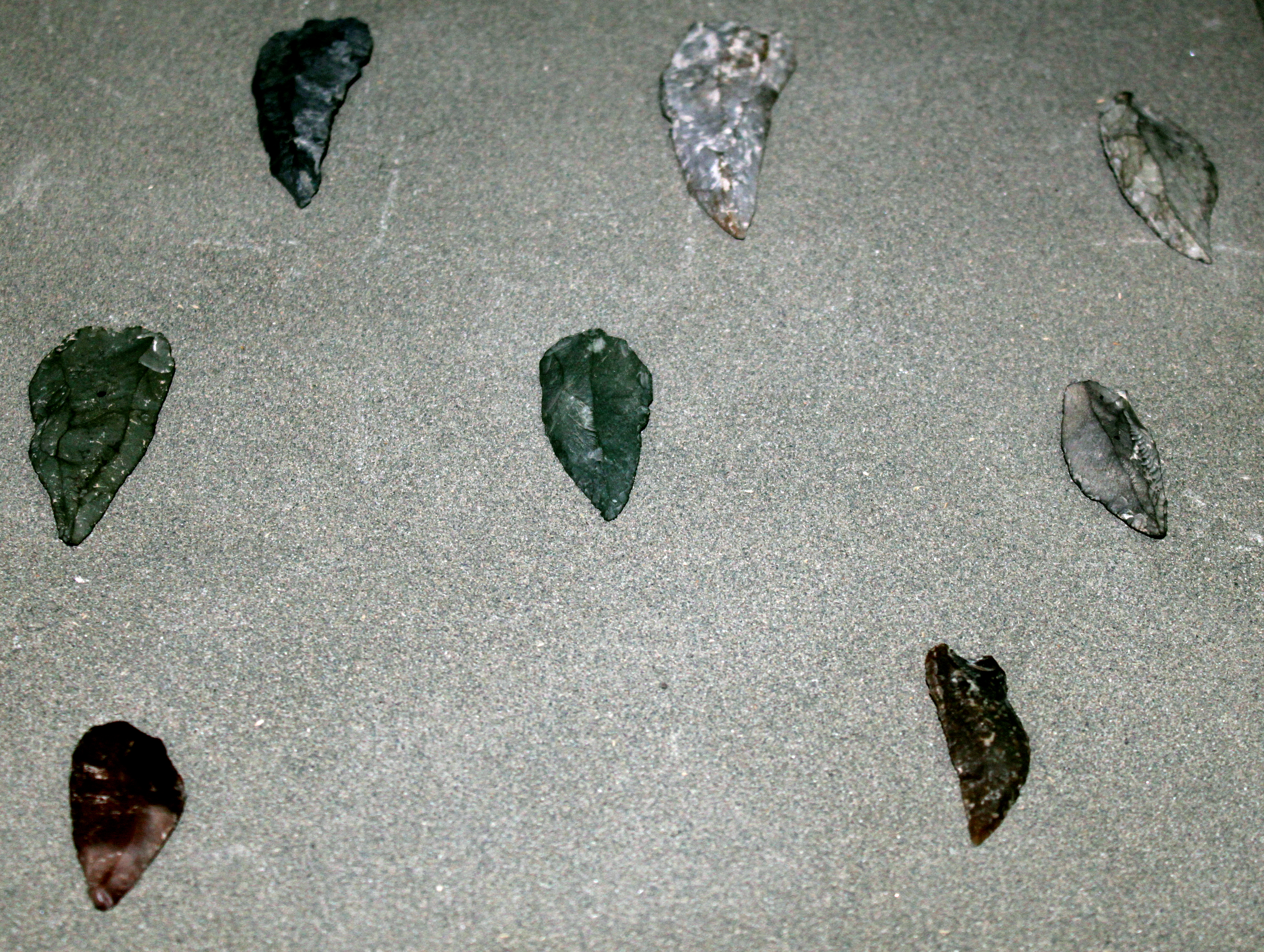 Çaxmaqdaşı və dəvəgözündən mikrolitlər, Damcılı mağarası, e.ə. XII-VIII minilliklər